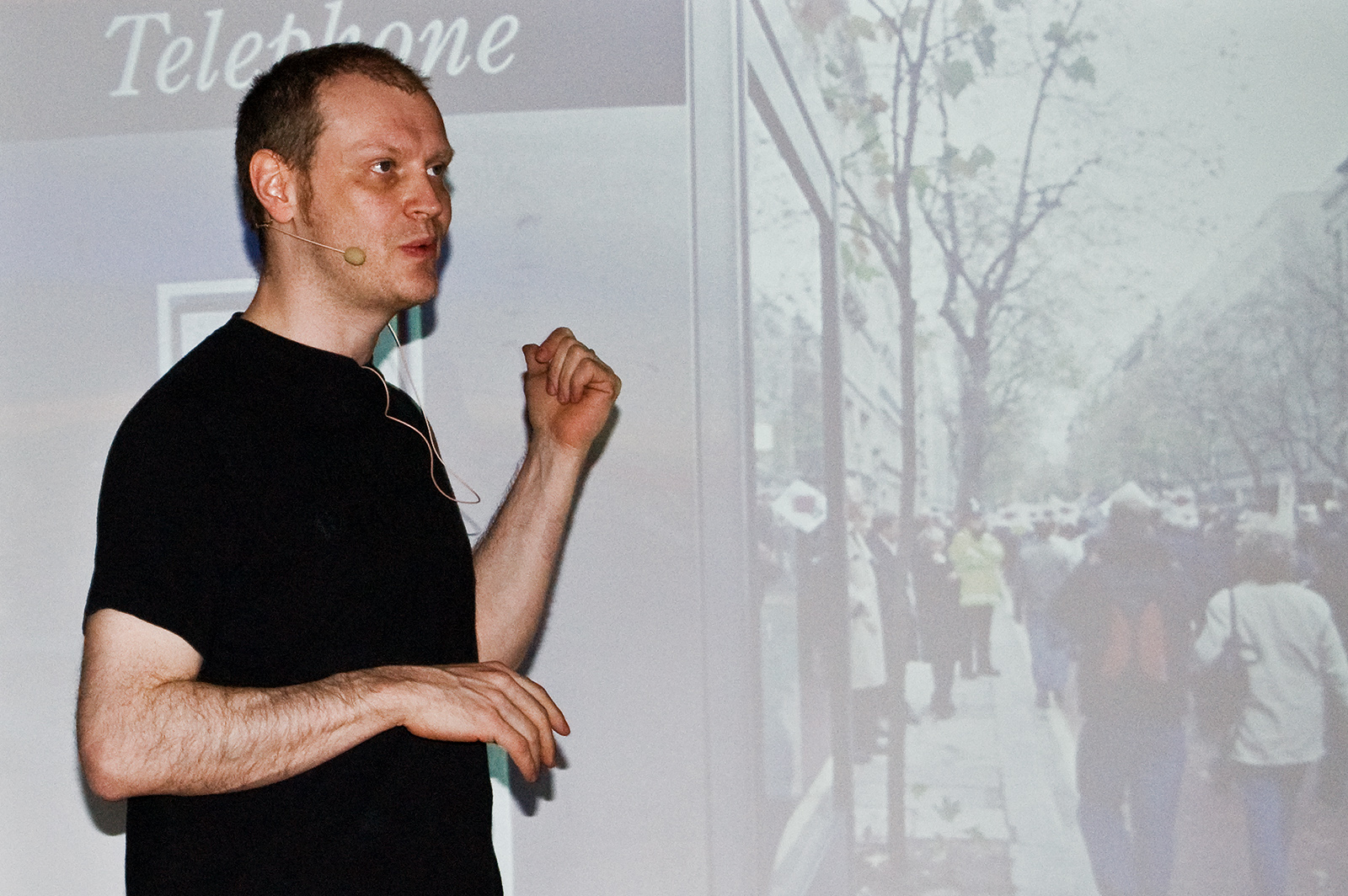 Jonathan Barnbrook at Typo Berlin 2008